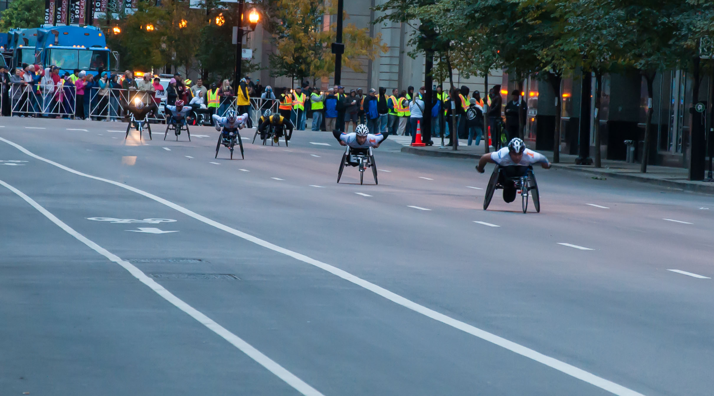 2012 Chicago Marathon Wheelchair men. After the first turn